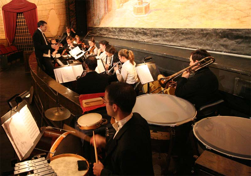 Rick Benjamin and the Paragon Ragtime Orchestra perform at the Poncan Theatre in Ponca City Oklahoma on October 4, 2008. Attribution and a photo credit for this photo must be provided to Hugh Pickens and a link to Hugh Pickens